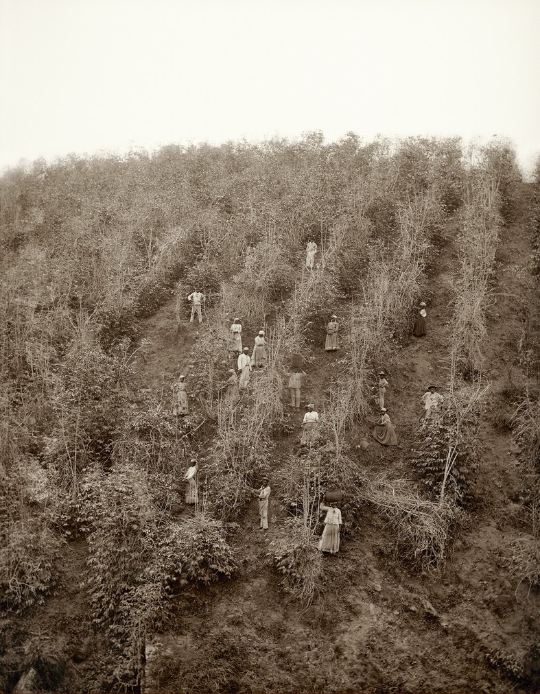 Slaves harvesting coffee in the Paraíba Valley, São Paulo, Brazil.